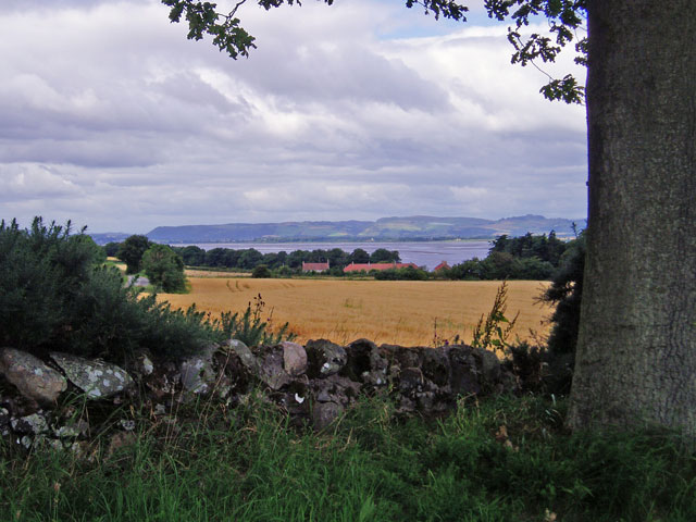 Memorial Cottages, Balmerino, looking north across the River Tay